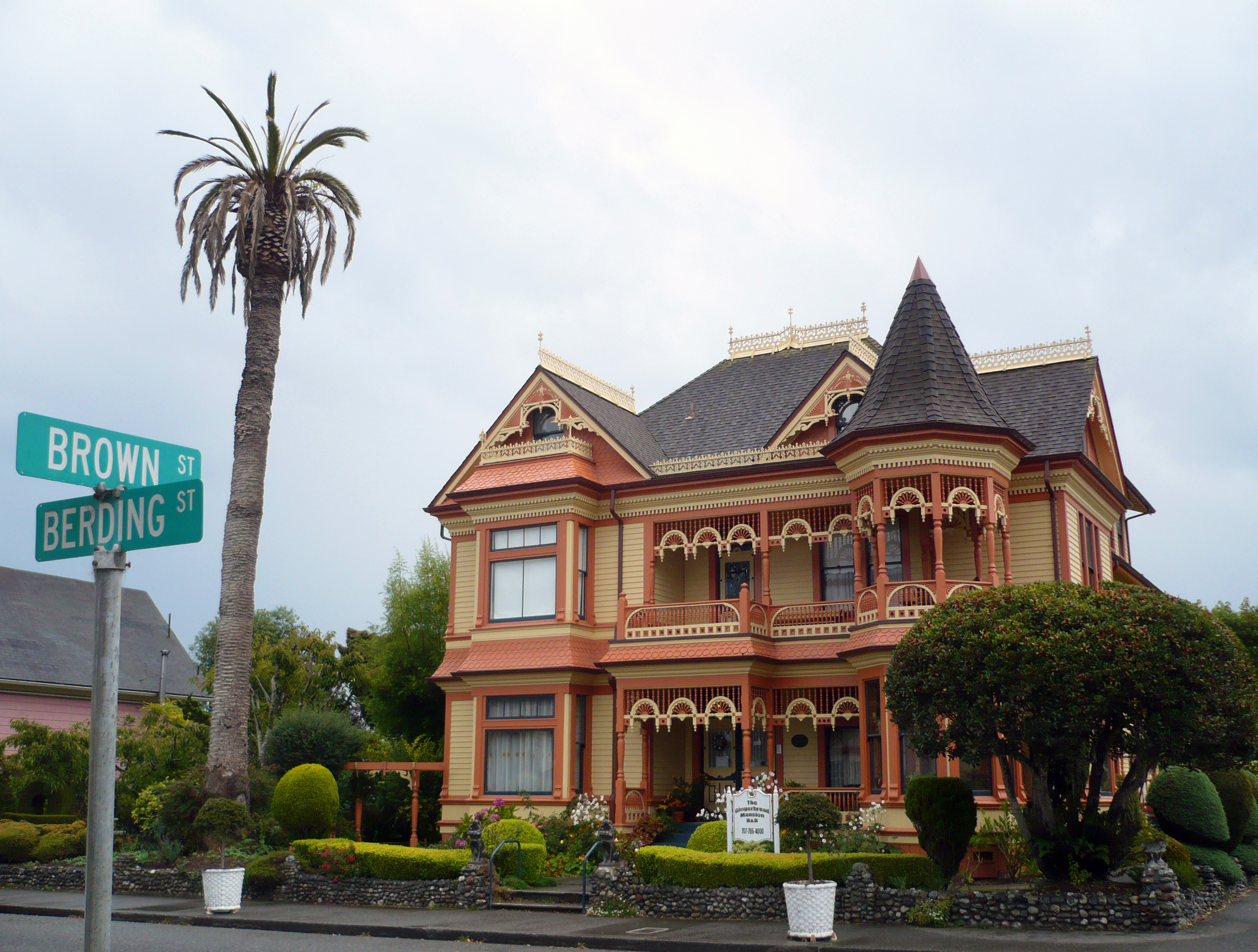 The combination Eastlake and Queen Anne style Gingerbread Mansion B&B at the corner of Brown & Berding Streets, Ferndale, California has served as a home, a hospital, the American Legion Hall, hotel and B&B since it was built for Dr. Hogan J. Ring in 1894.